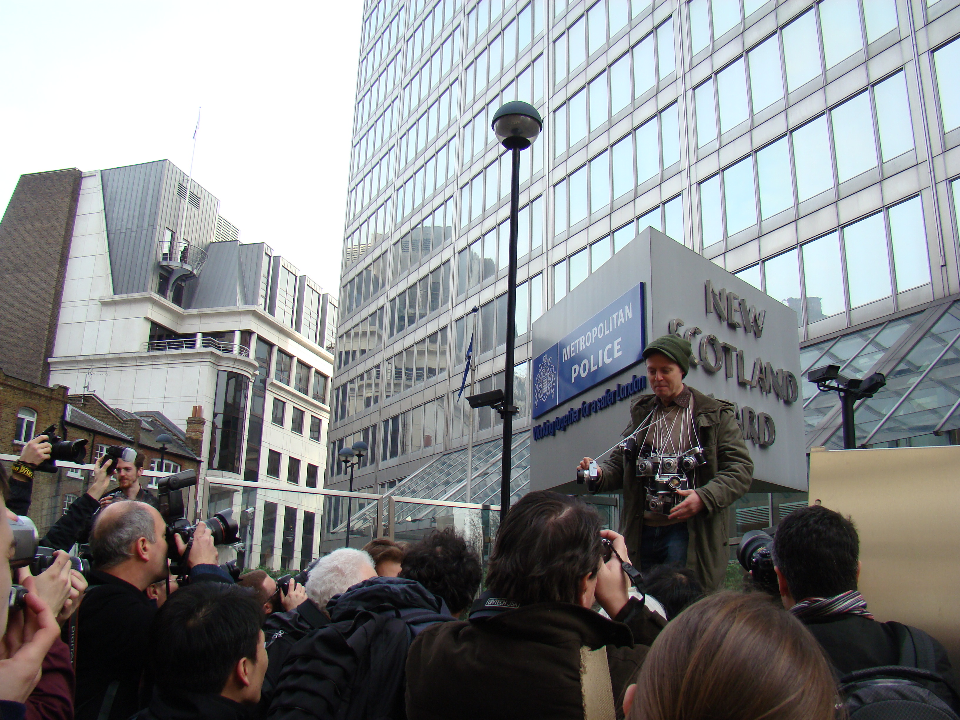 A protester stands in front of the iconic revolving sign at New Scotland Yard, London, United Kingdom, during a protest against section 76 of the Counter-Terrorism Act 2008.